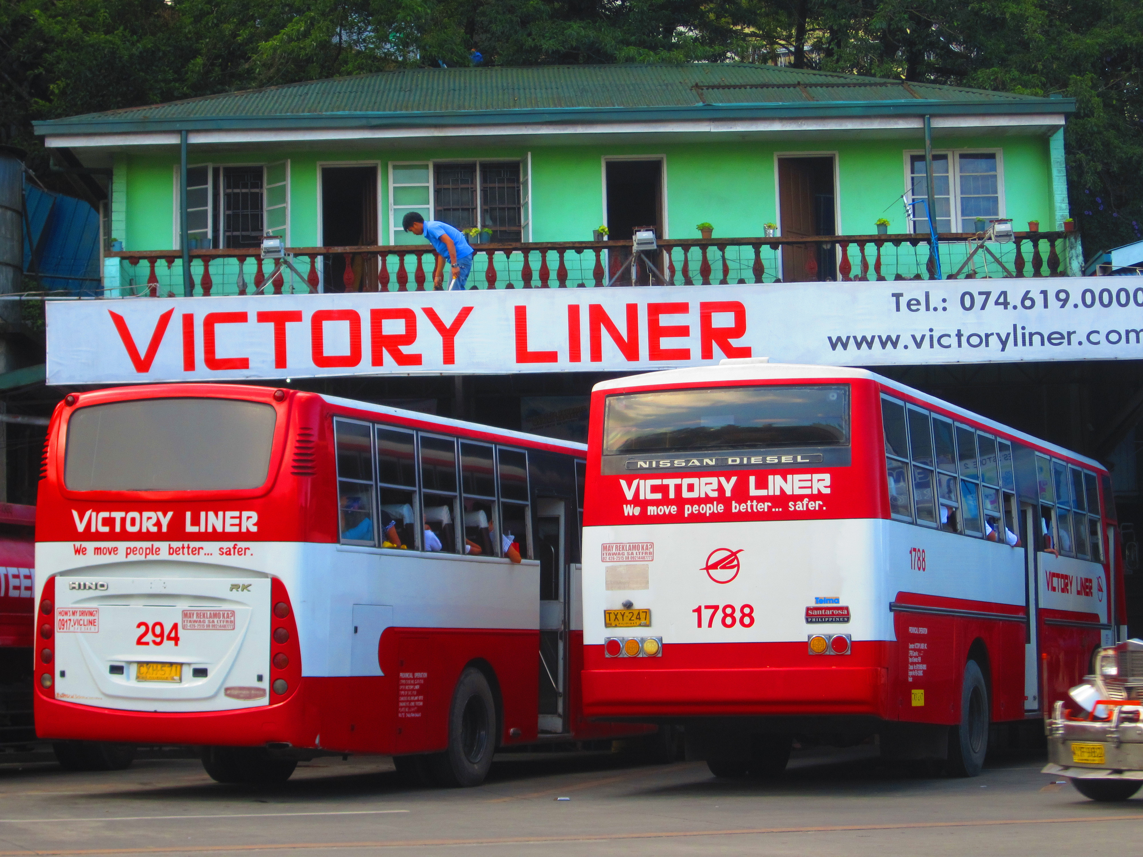 Victory Liner's former Baguio Terminal in Governor's Pack Road, Baguio City. This Terminal is now limited for Short-Interprovincial Buses.